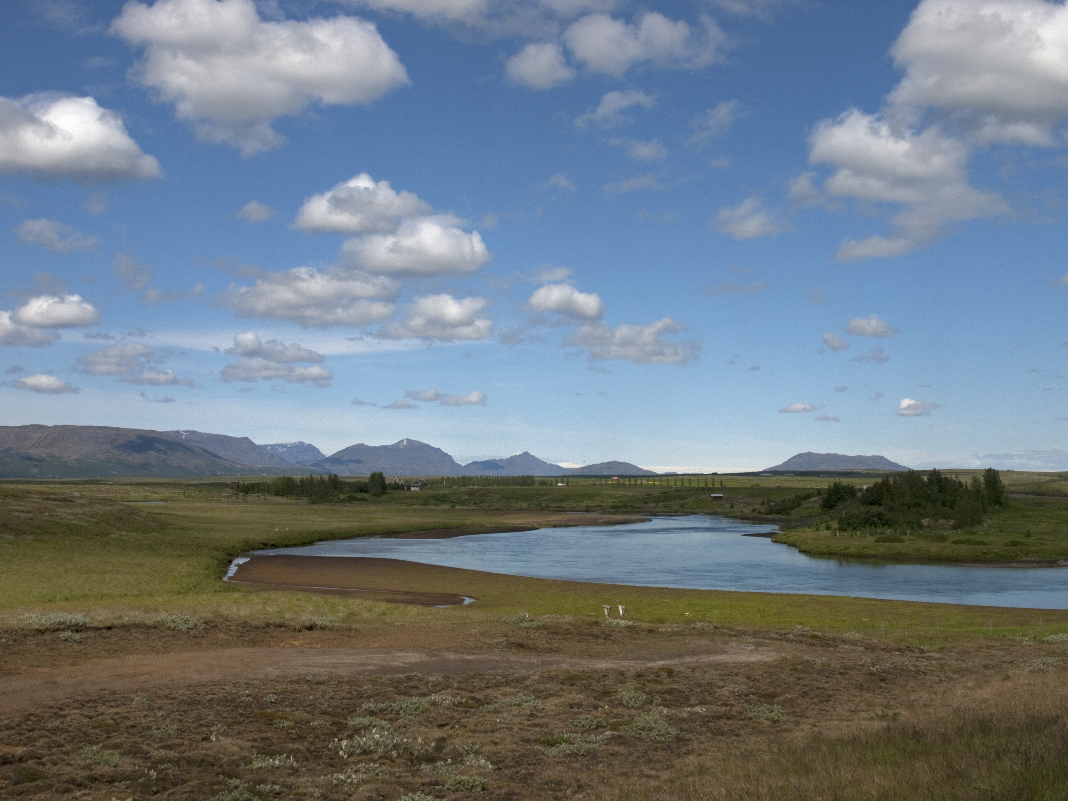 The Bruara River from Road 35, close to the bridge